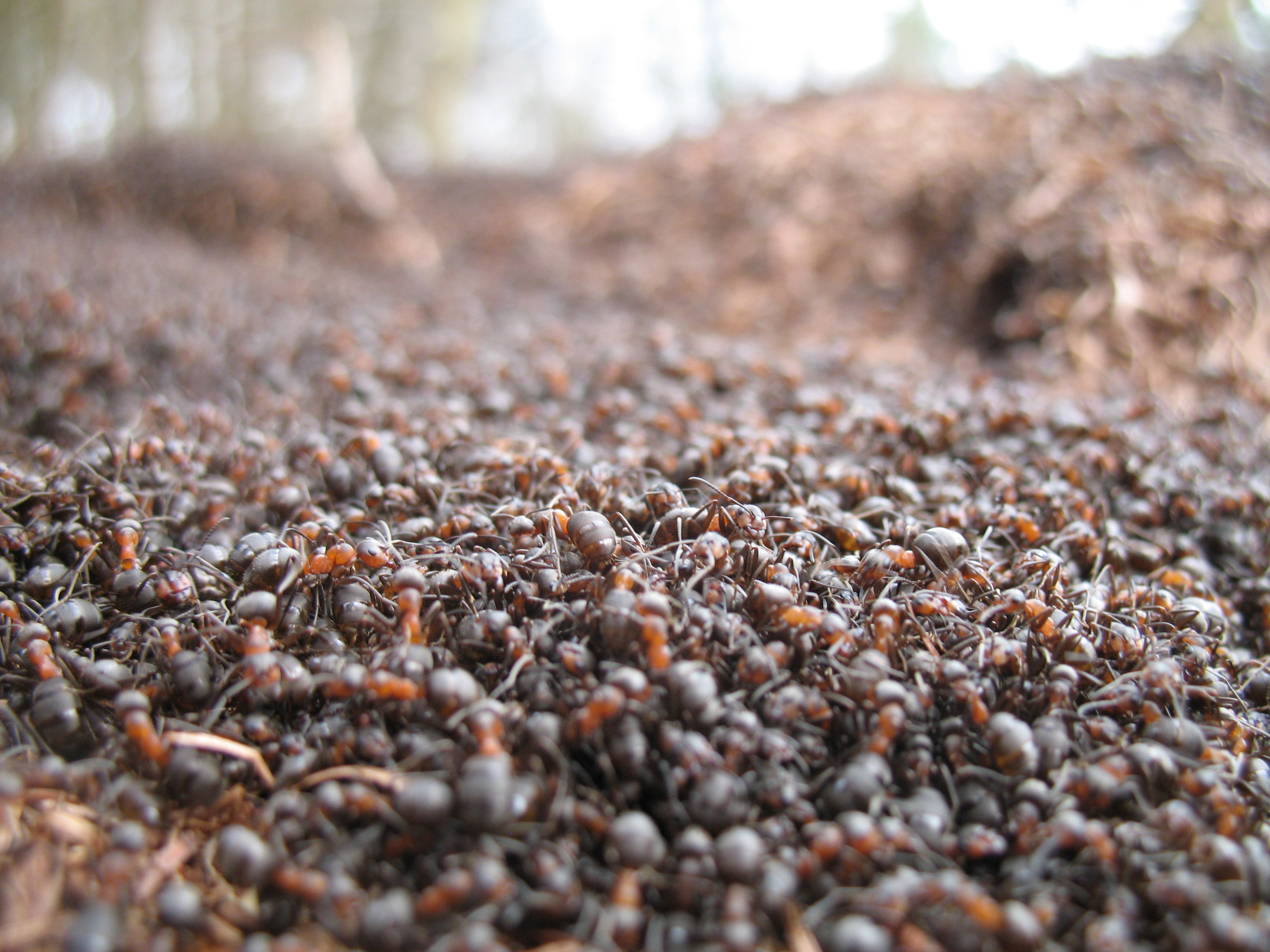 Photographed at Hardcastle Crags, spring.